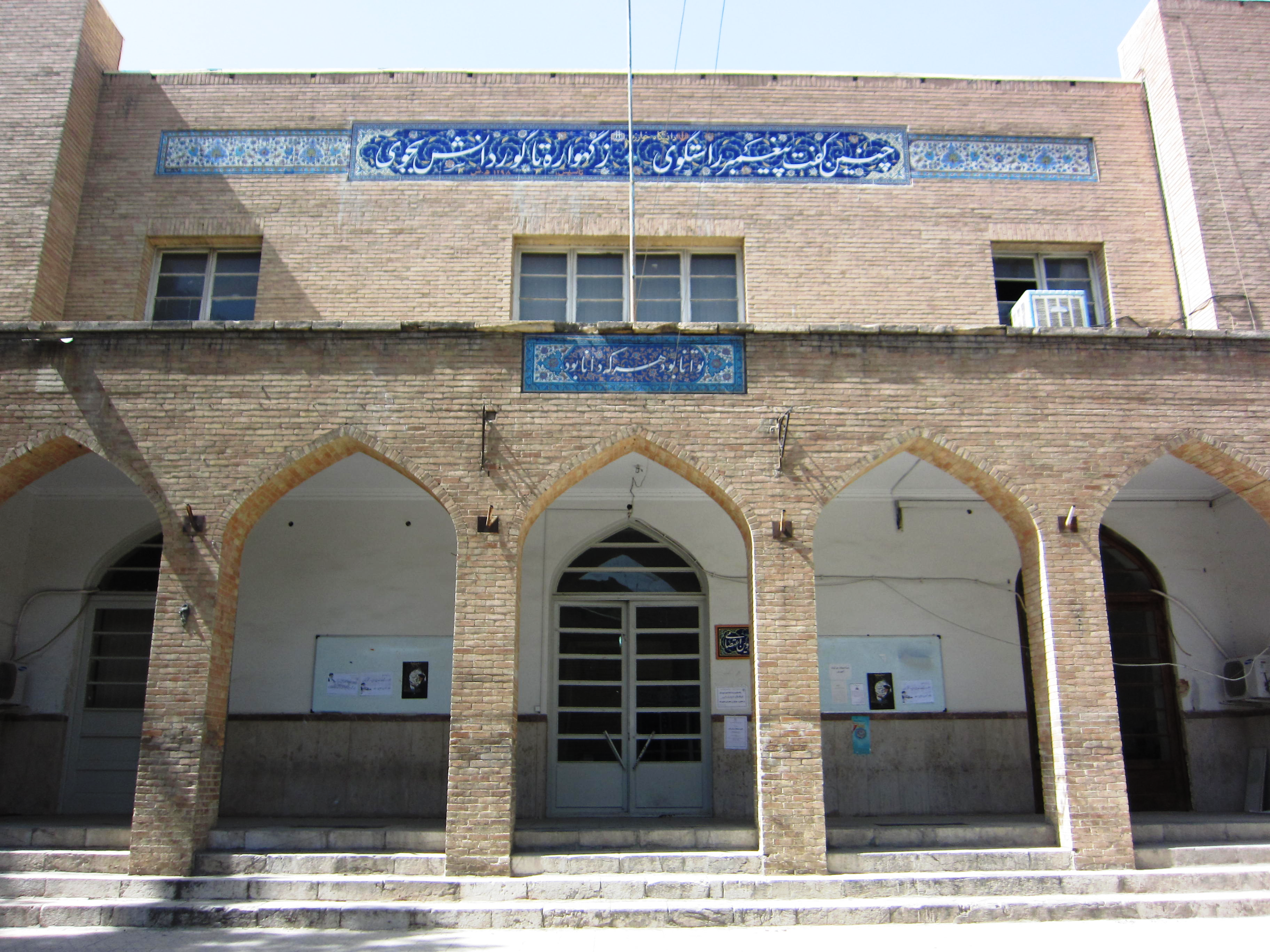 Main building of Kharazmi University in Tehran